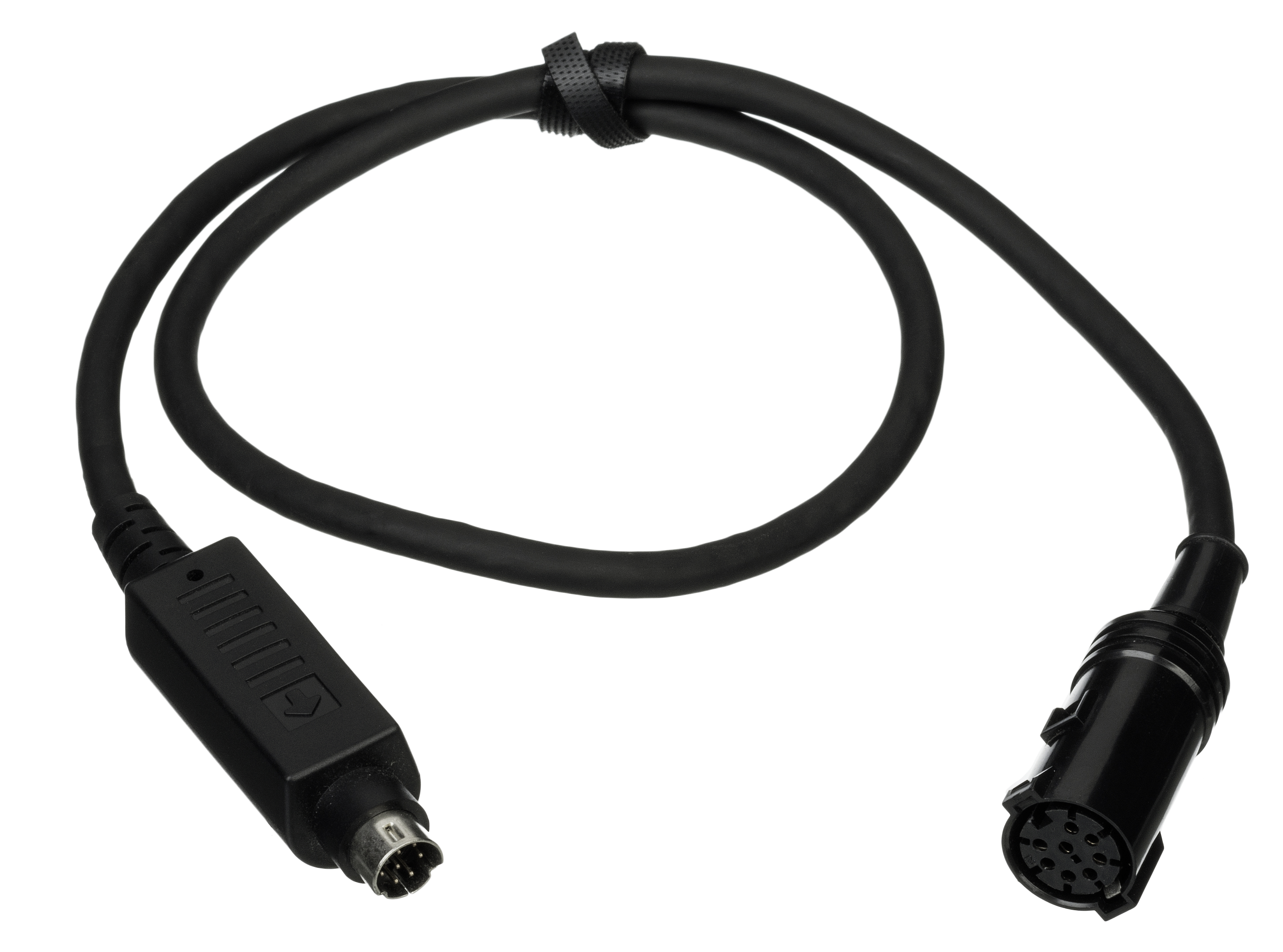 A controller adapter for the NEC TurboDuo gaming console. The TurboDuo was an all-in-one combination of the TurboGrafx-16 console and TurboGrafx-CD add-on. Its controller port was different than the TurboGrafx-16's however, making an adapter necessary. By using this one could hook up TurboGrafx-16 controllers to the TurboDuo or use accessories like the TurboTap. This item comes courtesy of Jeremy Butler.